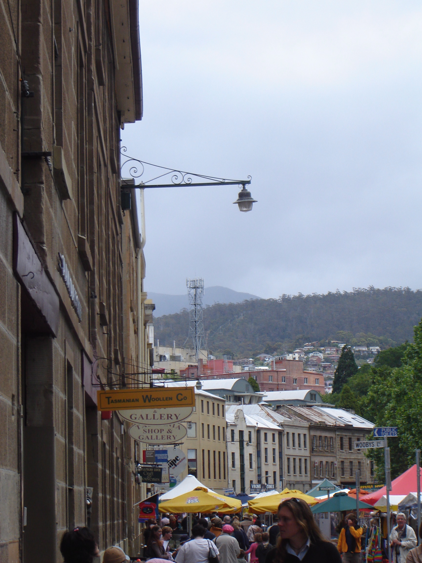 Salamanca Markets, a popular market in Hobart every Saturday morning.